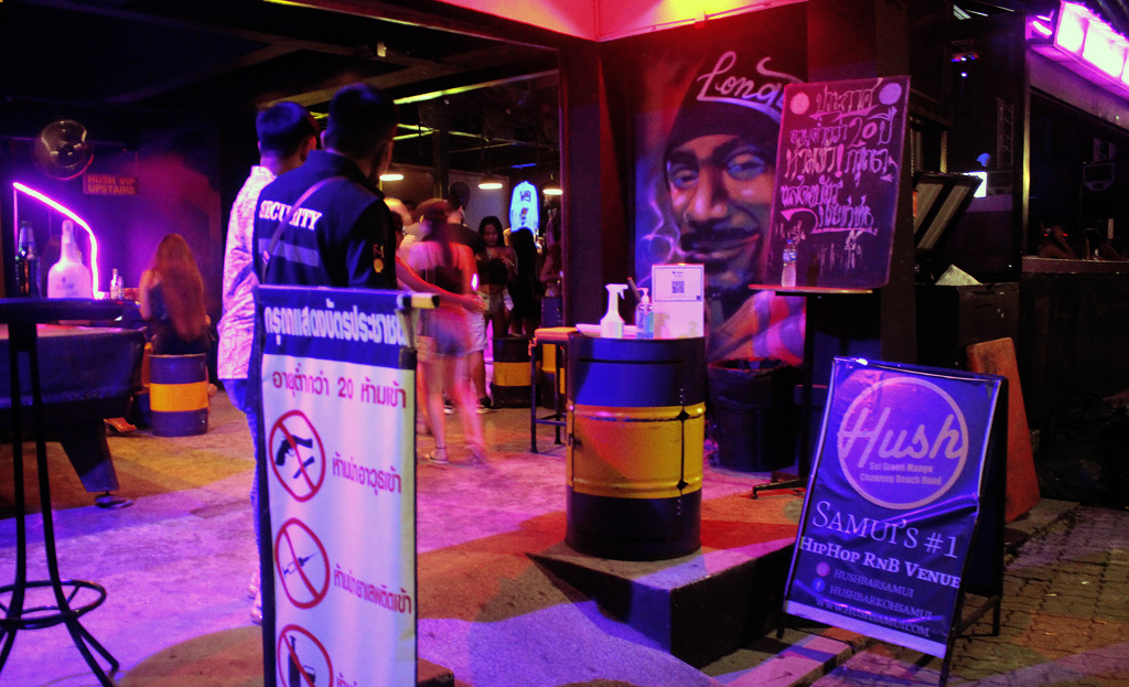 The "new normal" in nightlife with guest check-in to a nightclub: temperature control, signing in using the Thai Chana-app, cleaning hand with alcohol gel. Photo from "Hush, Samui's #1 HipHop RnB Venue" in so-called soi Green Mango, taken the night of re-opening the nightlife on July 1st 2020 at 11:15 pm after the Covid-19 lockdown.